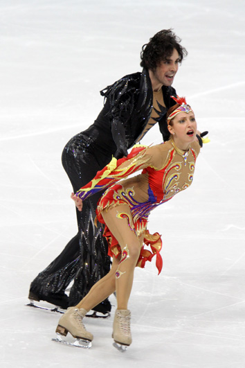 Jana Khokhlova and Sergei Novitski at the the 2010 World Championships.